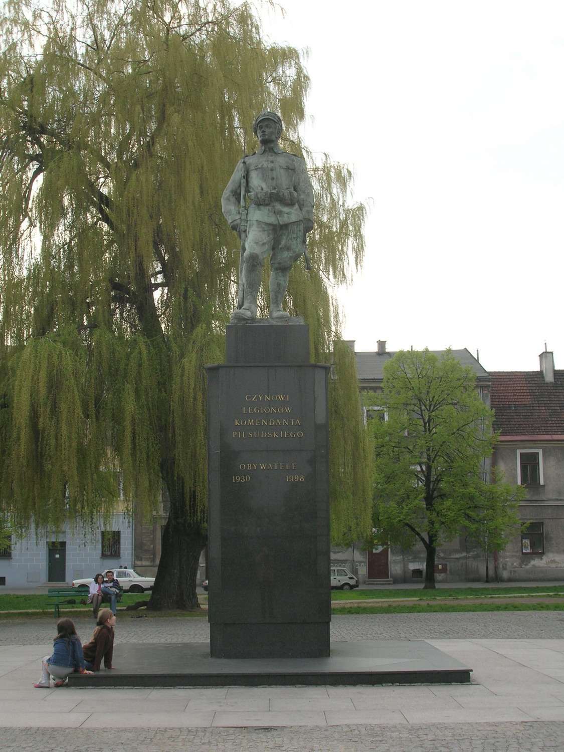 Radom - Statue of Legionist.